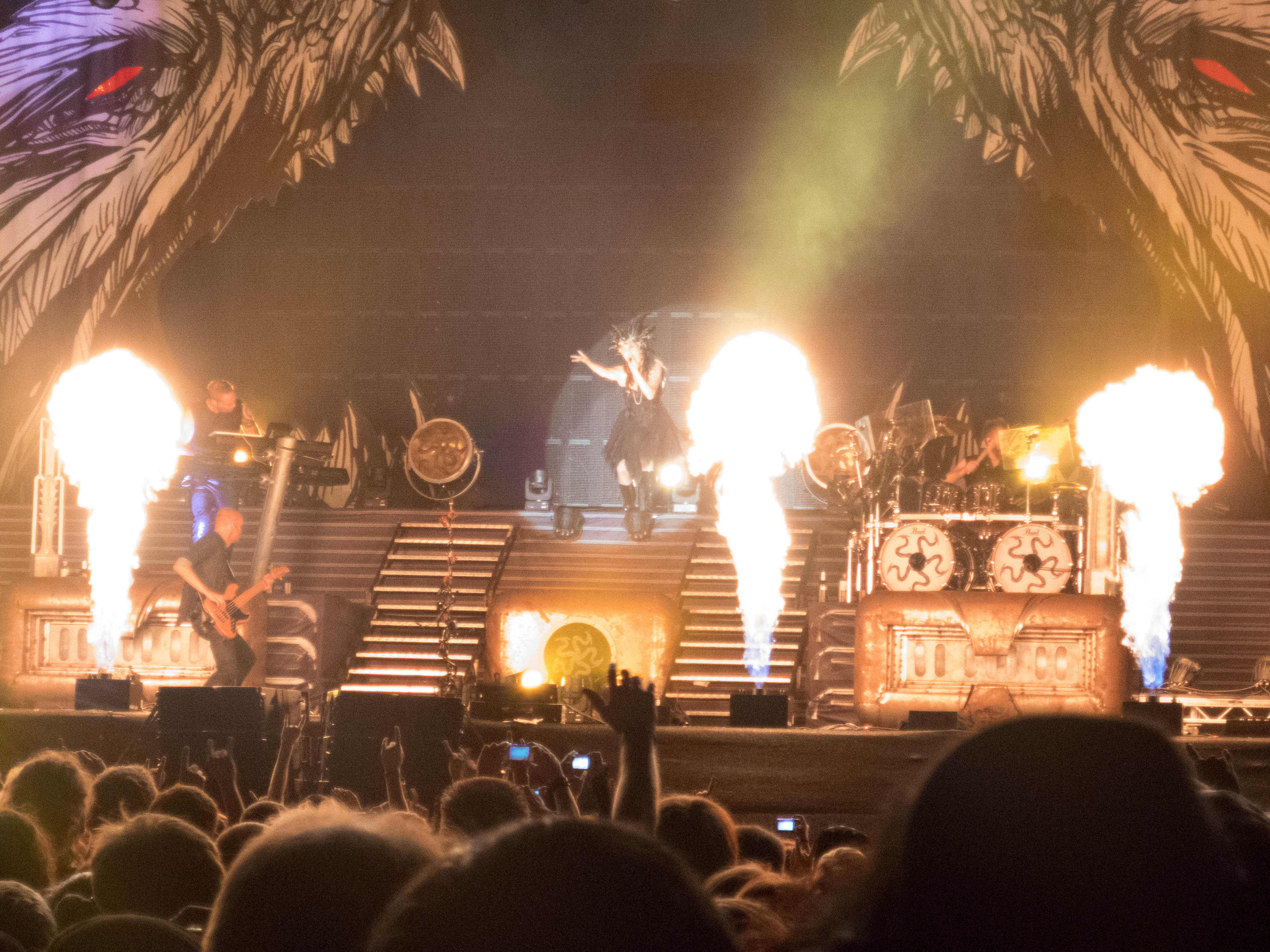 Dutch symphonic metal band Within Temptation performing at the 2014 edition of M'era Luna Festival. Lead vocalist Sharon den Adel, keyboardist Martijn Spierenburg, bassist Jeroen van Veen and drummer Mike Coolen are pictured. Two decorative dragons can be seen on the stage as also the use of pyrotechnics.